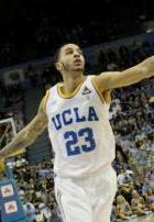 Tyler Honeycutt of UCLA defending